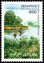 Stamp of Belarus